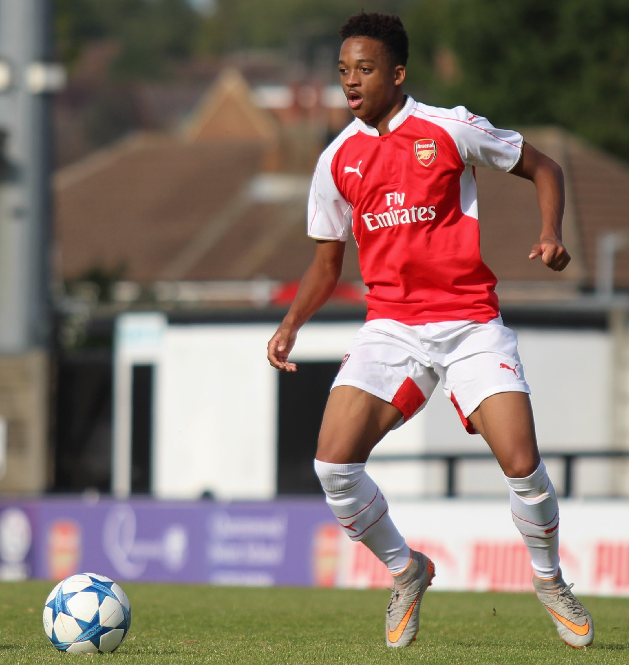 Chris Willock of Arsenal U19s on the ball during the game against Olympiacos.